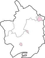 Map of the Monmouth Boroughs constituency 1885 - 1918. shown in pink) within Monmouthshire Captioned As { }